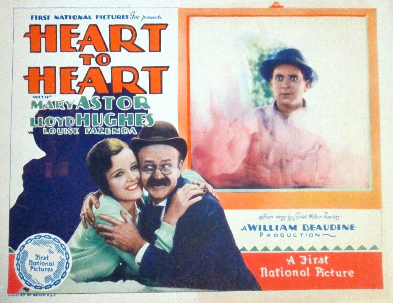 Lobby card for the American film Heart to Heart (1928) with Mary Astor, Lucien Littlefield, and Lloyd Hughes.